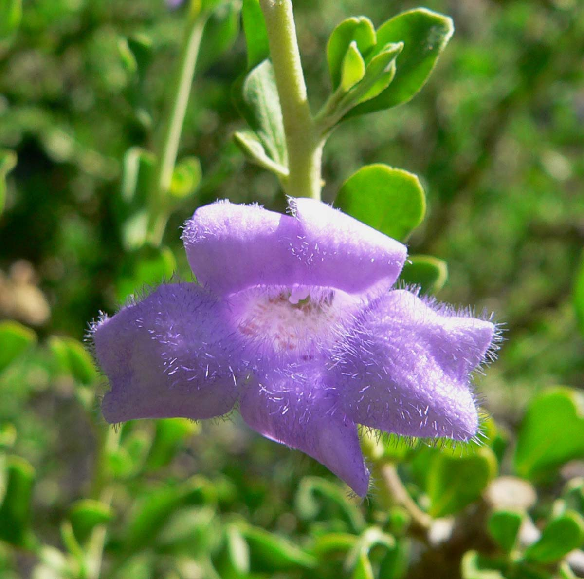 Photo of Leucophyllum laevigatum (Chihuahuan sage) at the Springs Preserve garden in Las Vegas, Nevada